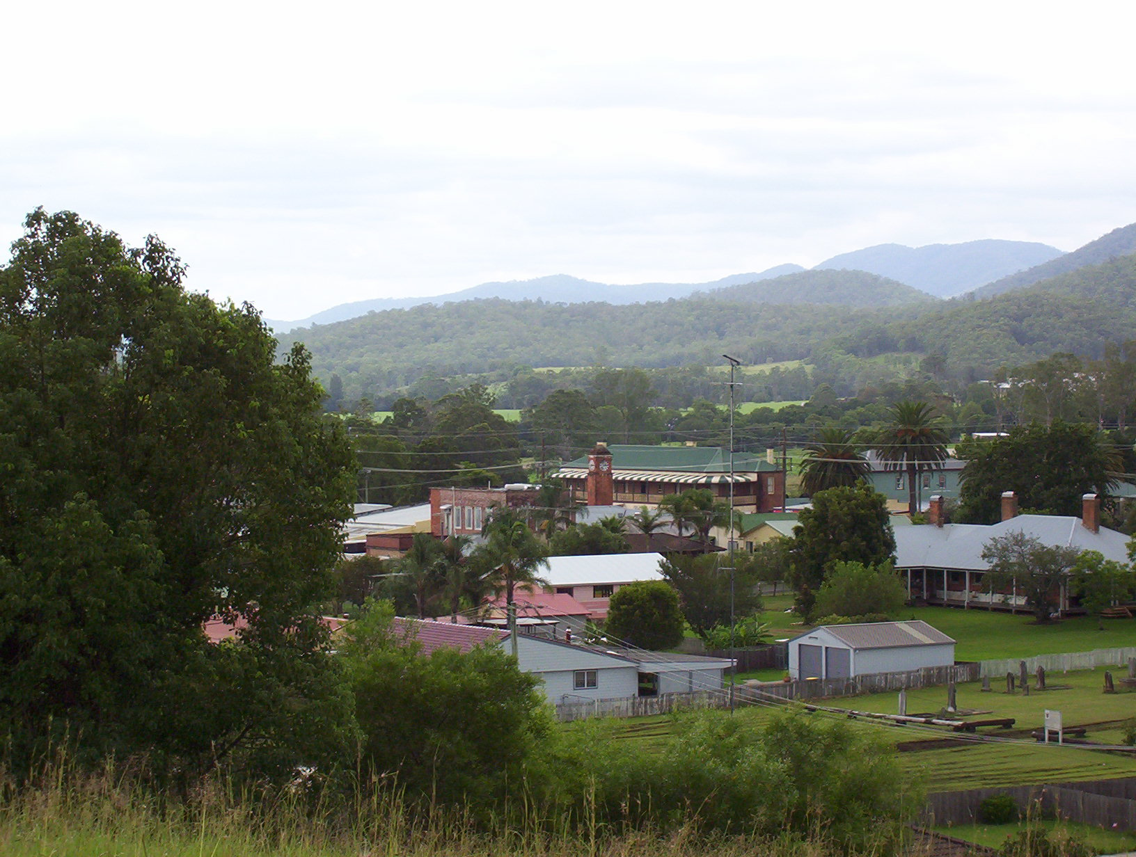 Thomas Tolhurst took this photo in of Stroud Town Centre.